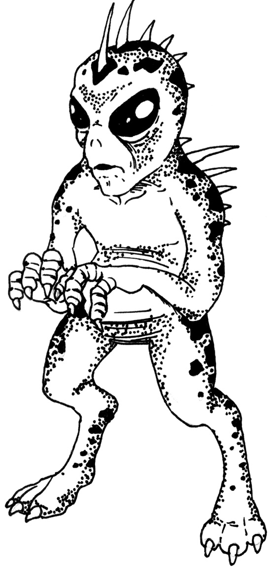 Graphic depiction of Chupacabra, image drawn by user LeCire for its use on the Wikipedia.